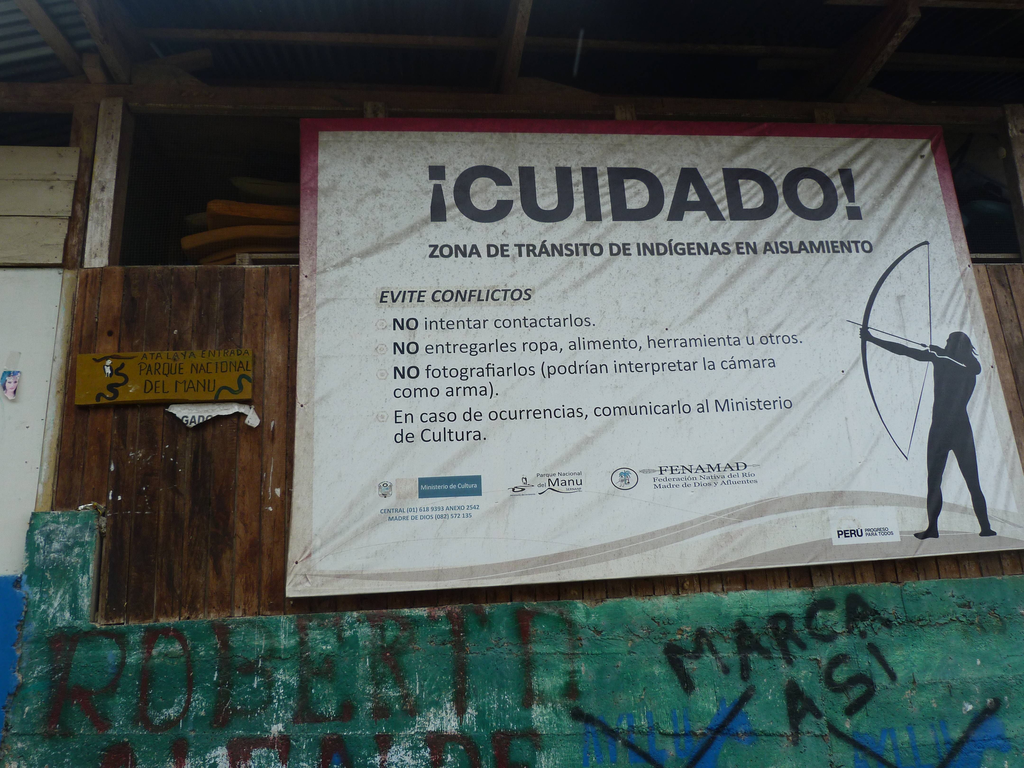 WARNING Isolated natives transit area Avoid conflicts DO NOT try to contact them DO NOT offer them clothes, food, tools nor anything else DO NOT try to take a picture of them (they could mistake your camera for a weapon) In case of encounter, inform the Ministry of Culture